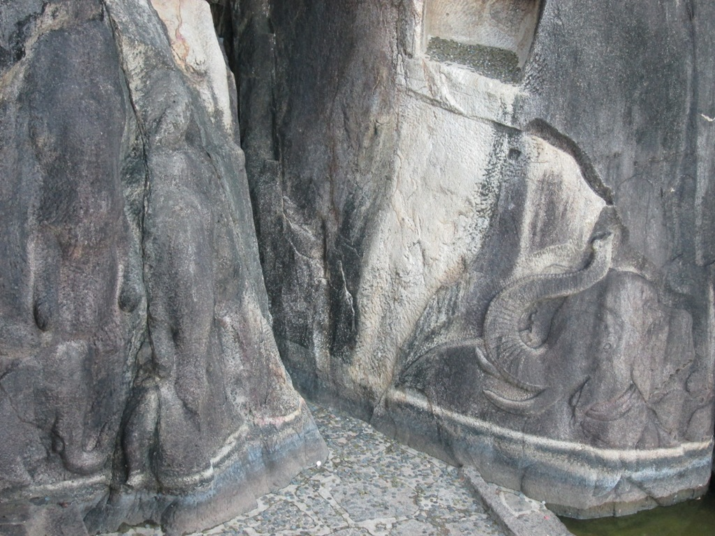 This carving of Bathing Elephants is situated behind the pond of Isurumuniya, Sri Lanka. (4th century AD)